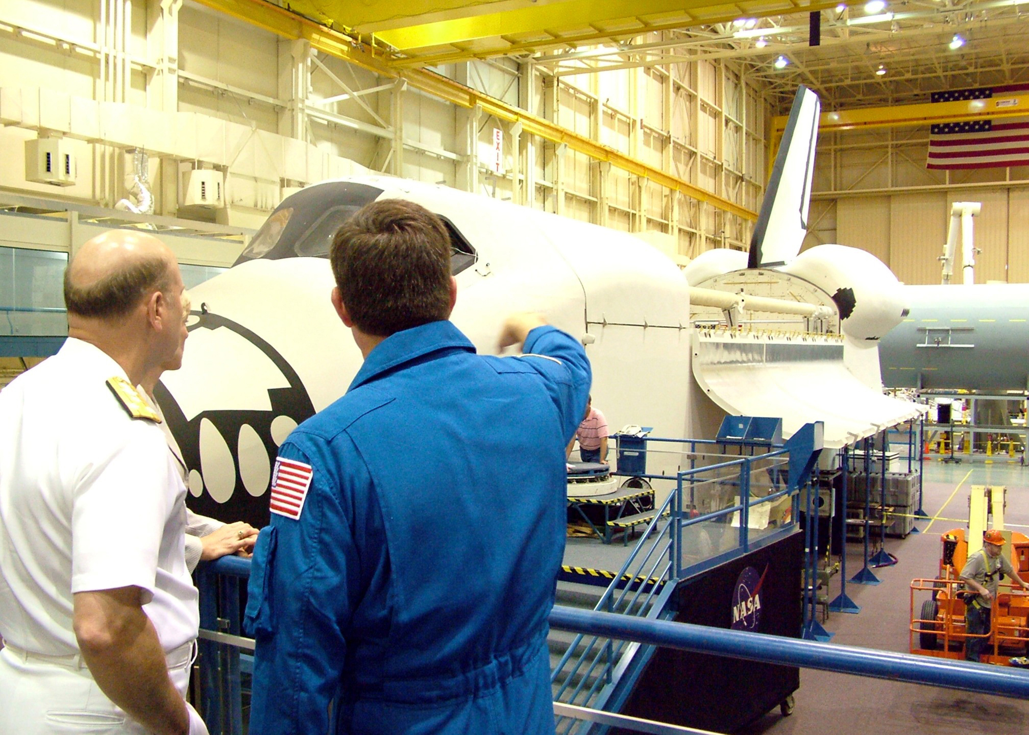 Houston (May 12, 2006) - Deputy Chief of Naval Operations for Resources, Requirements and Assessments Vice Adm. Lewis W. Crenshaw, Jr. tours the Johnson Space Center in Houston during Navy Week Houston. Twenty Navy Weeks are planned this year in cities throughout the United States, arranged by the Navy Office of Community Outreach (NAVCO). U.S. Navy photo by Storekeeper 2nd Class John P. Stone (RELEASED)